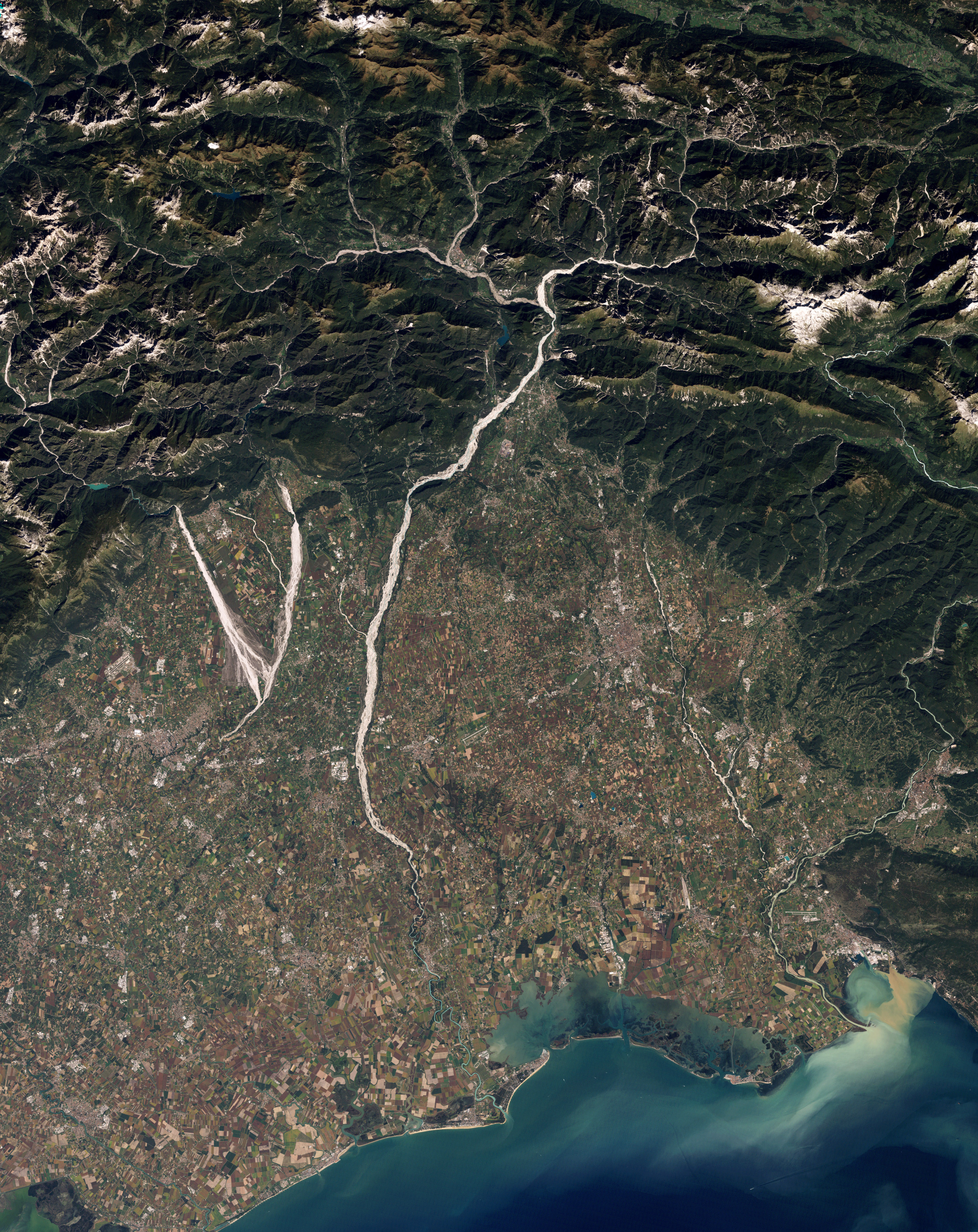 Natural-colour image of north-eastern Italy showing parts of the Cellina, Meduna, and Tagliamento rivers. The gravel-coated riverbeds contrast sharply with the surrounding landscape, highlighting the river contours. The Cellina and Meduna Rivers converge in the south, forming a giant V shape. When a river receives more sediment than it can move effectively, the river changes shape, often carving braided channels. Upstream from the Cellina, Meduna, and Tagliamento Rivers, the mountain basin is seismically active and prone to landslides. As a result, heavy sediment loads often reach these rivers, all three of which have braided channels. Around the rivers, rectangular shapes of green, gold, and brown belong to cultivated fields. The crops mingle with settlements, some of them quite close to river channels. Some hydrologists have expressed concern about continued development on this floodplain because flood damage has occurred fairly frequently, just as the fertile soils have attracted farmers.